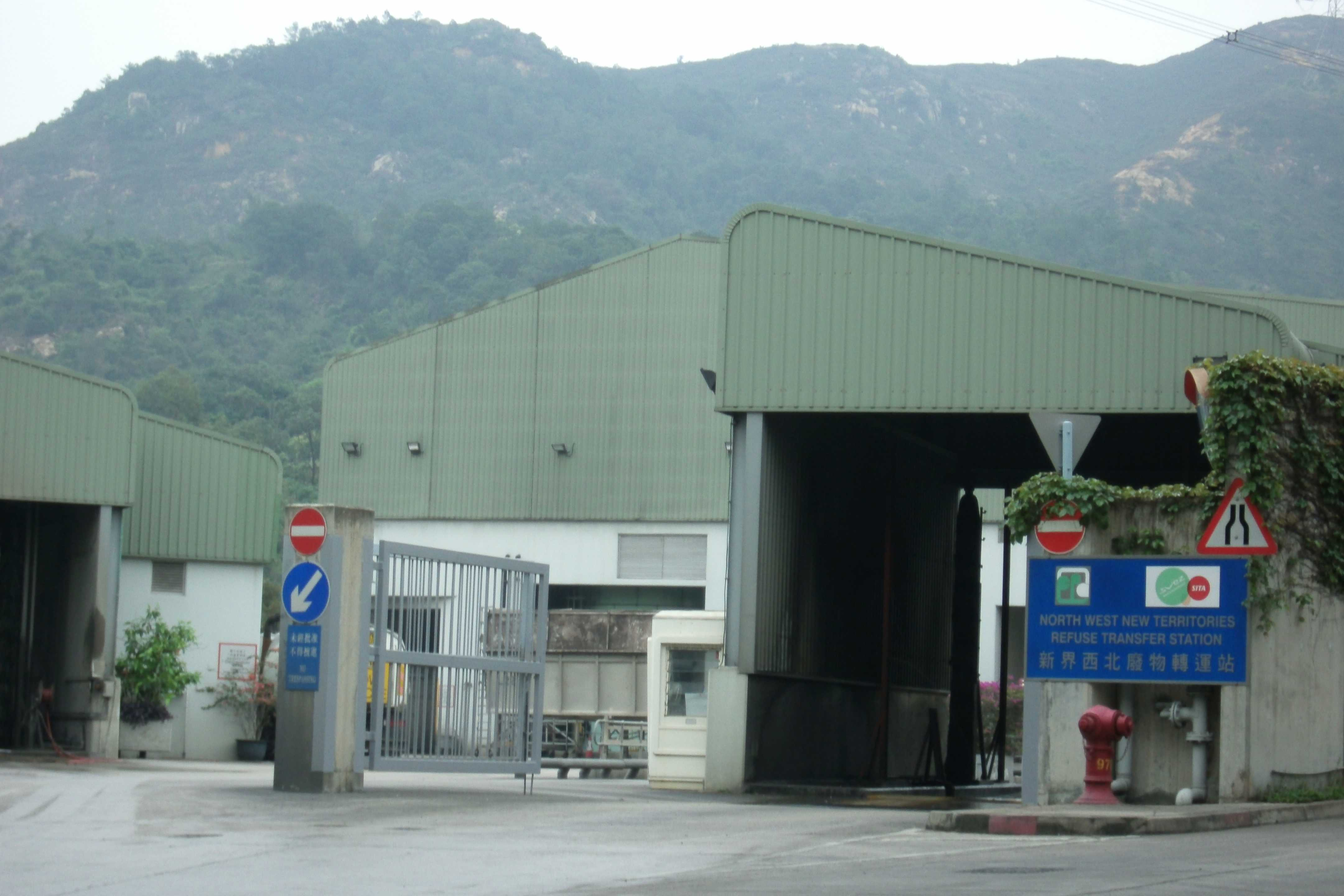 Nw nt refuse transfer station